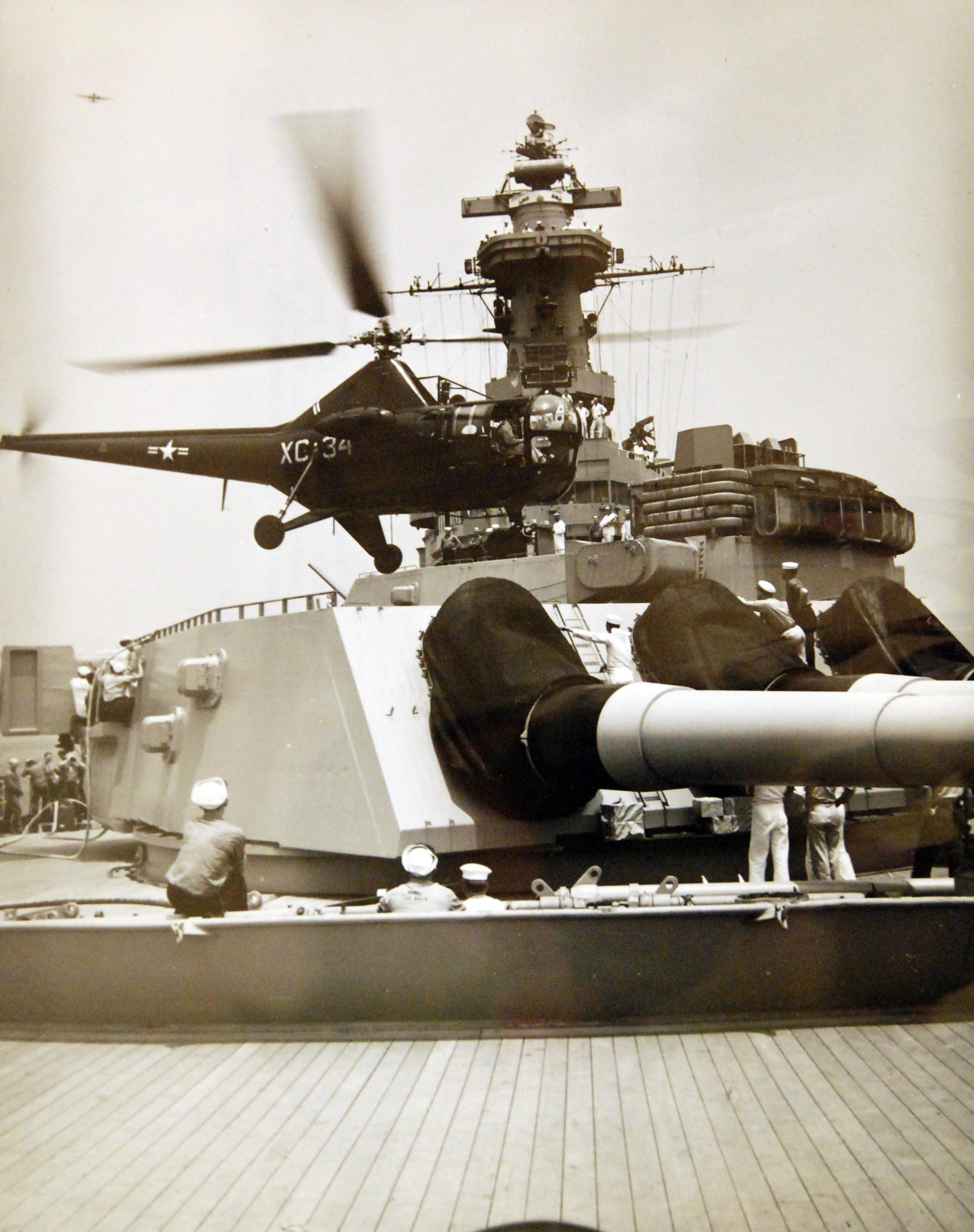 Lot-6048-5: U.S. Navy helicopter is shown landing on the forward 16-inch gun turret of USS Missouri (BB-63) during the 1948 “Midshipmen’s Practice Cruise, Guard Mail, ship’s newspapers and personnel were exchanged via helicopter while the cruise squadron was at sea. Most exchanges, however, were made by “hovering pick-up” in which the plane did not land but hovered over the deck. Photograph filed September 13, 1948. U.S. Navy Photograph, USN 706093. Courtesy of the Library of Congress. (2018/10/20). Photographed through Mylar sleeve.